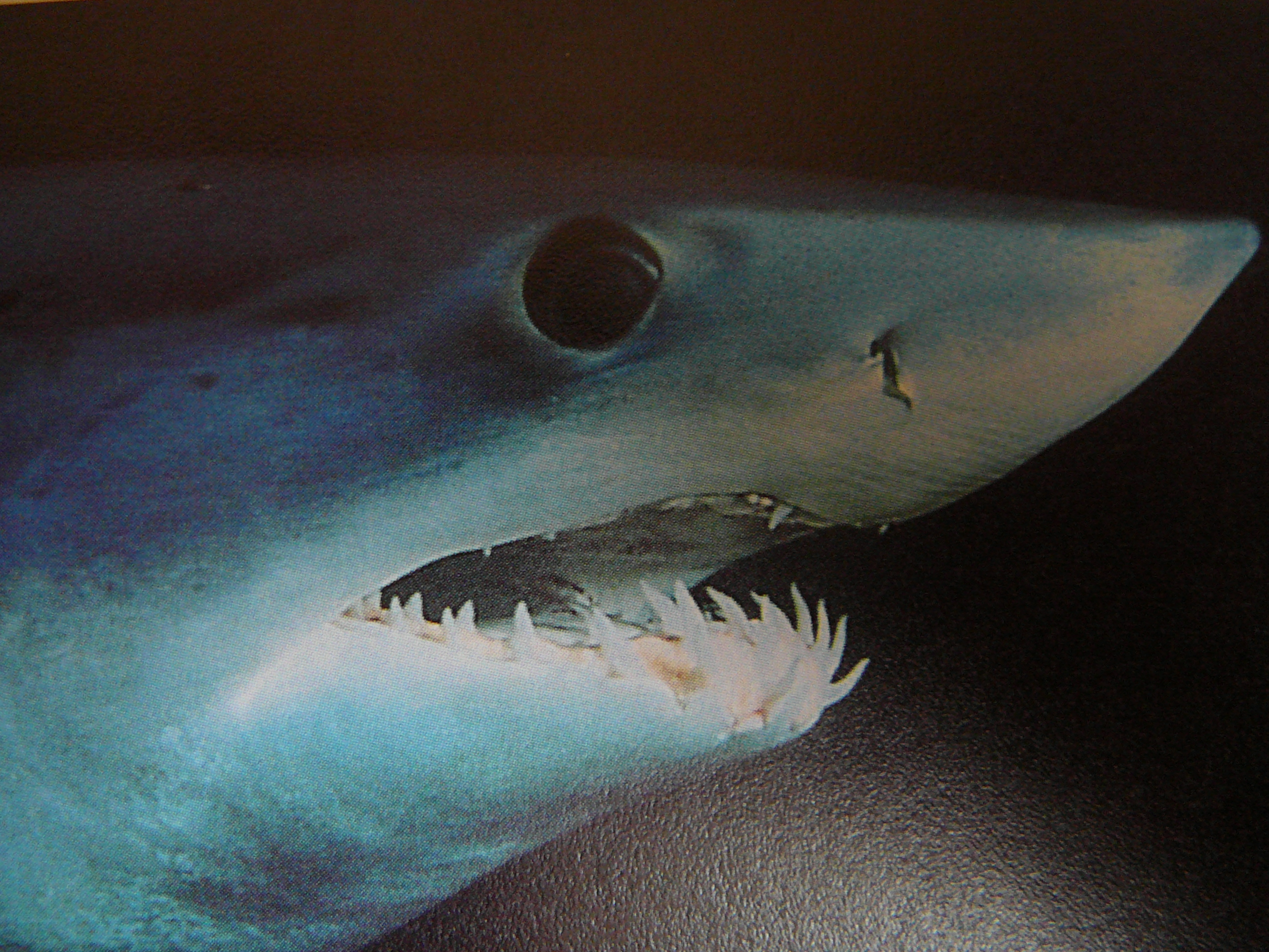 A close up of a shortfin mako shark head.